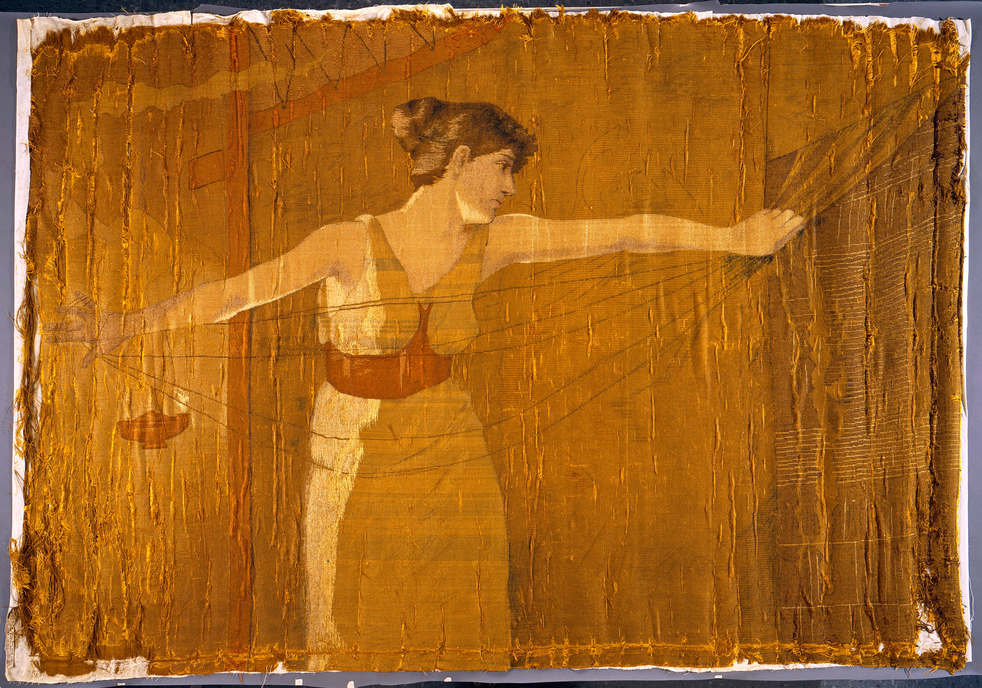 American; Embroidered Panel; Textiles